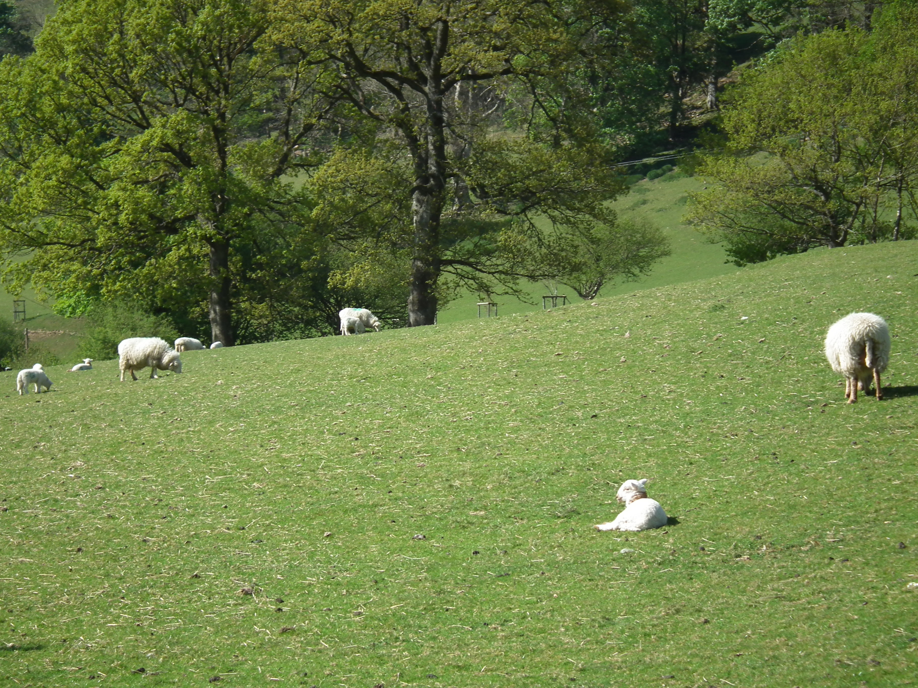 Sheep grazing, Cwm Pennant, Powys, Wales